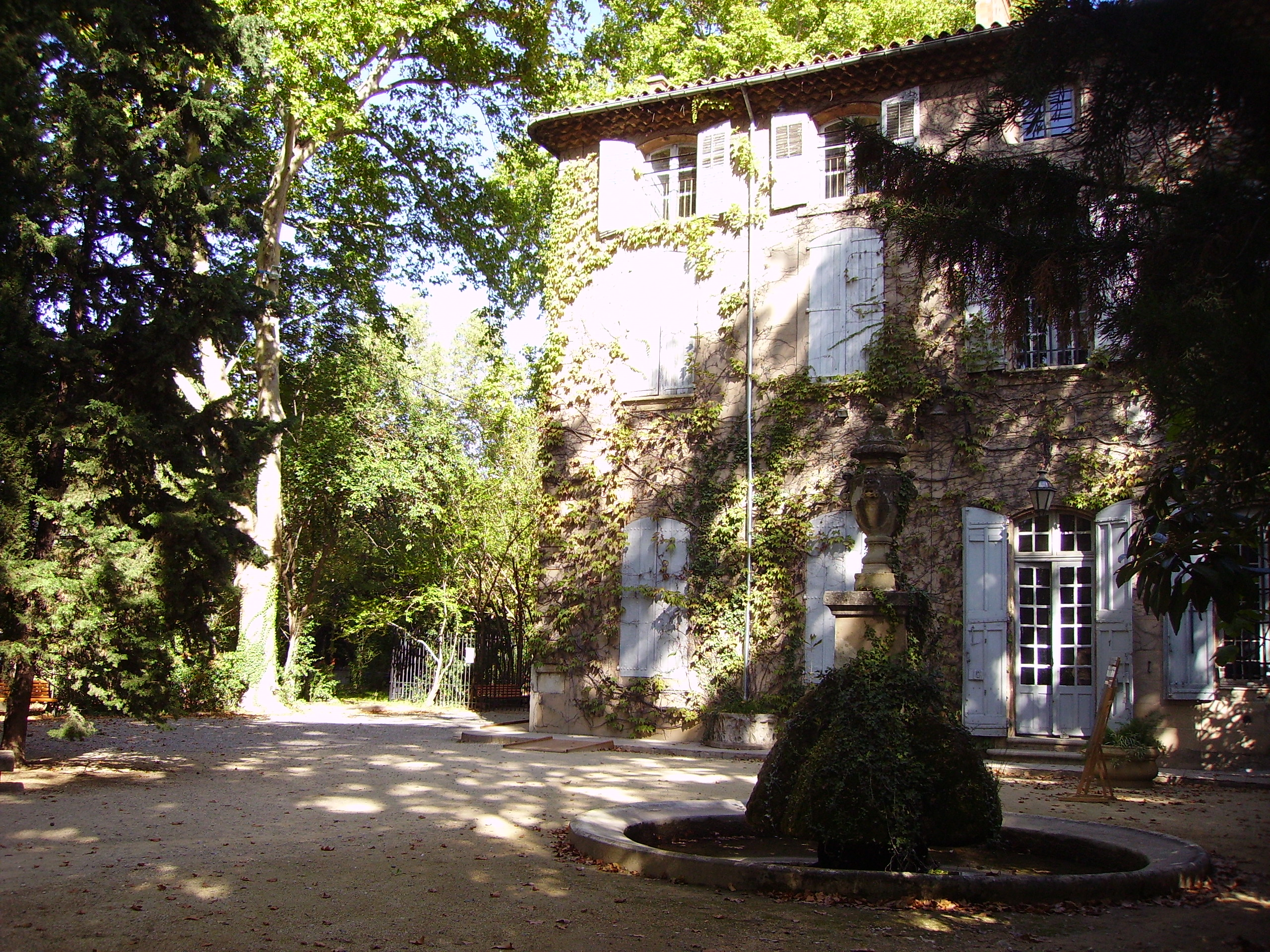 Photographer: User:Ballista